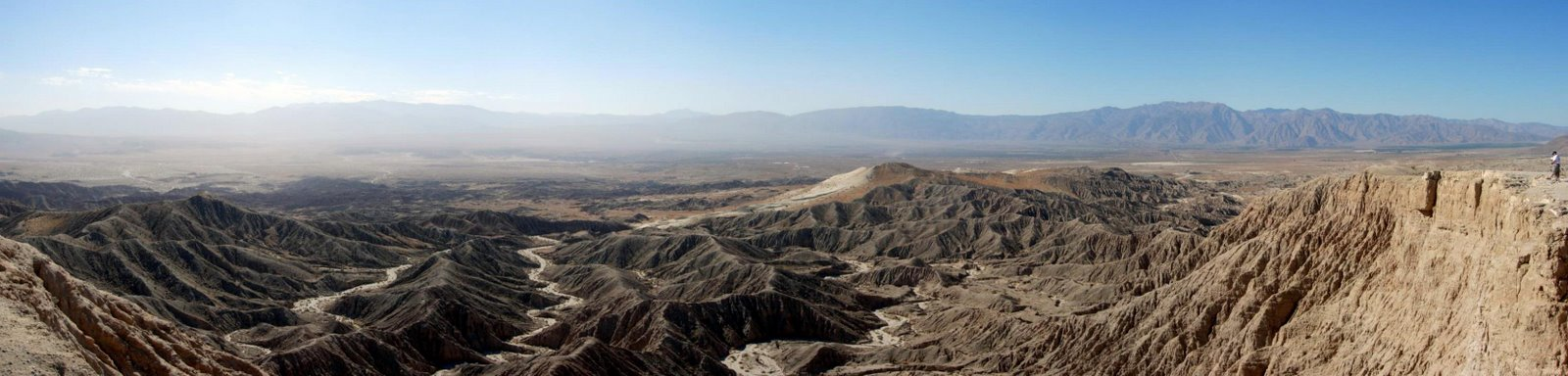 Panoramic Composite image of Font's Point, Anza-Borrego Desert State Park, CA.